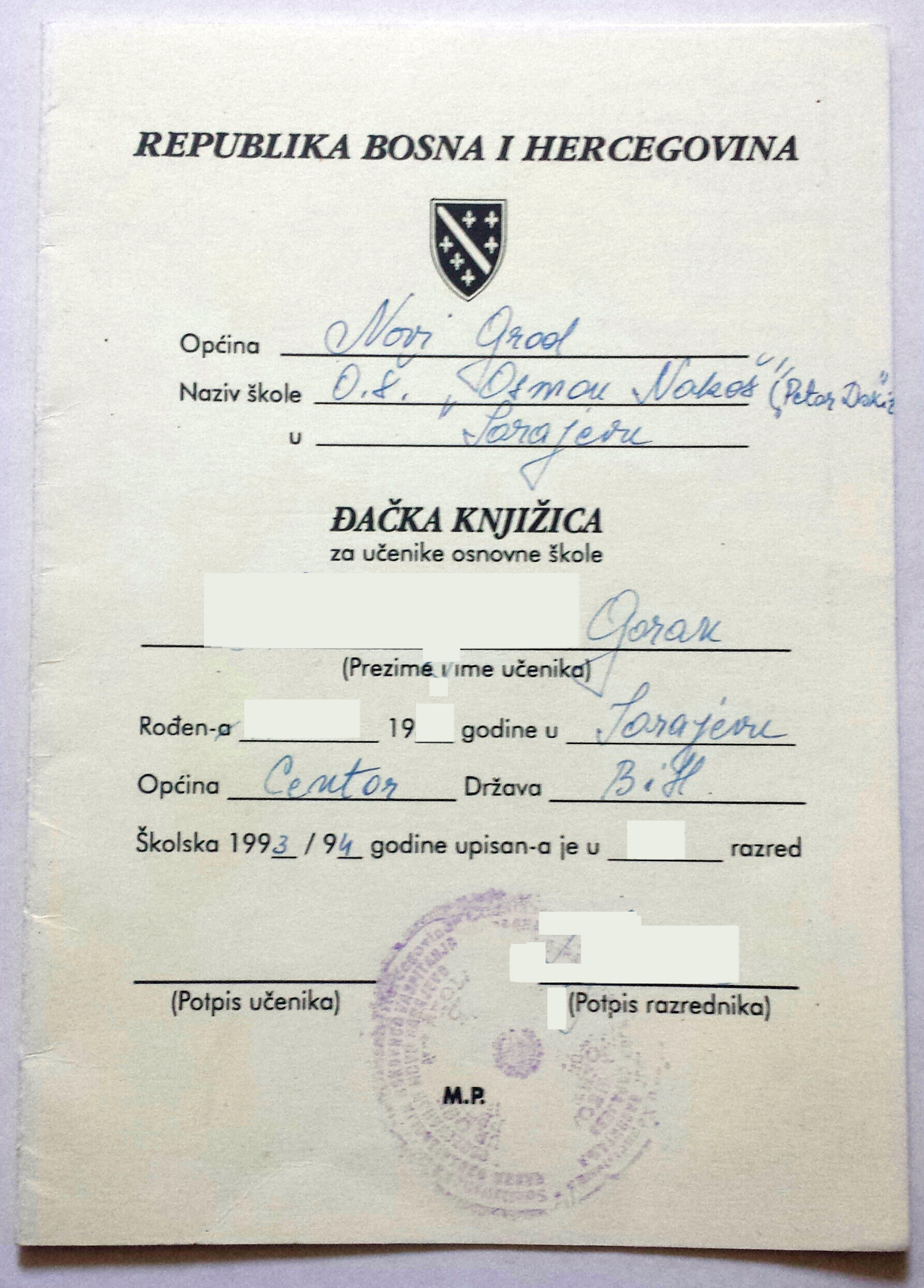 Report Card Elementary School (Republic of Bosnia and Herzegovina) Djacka knjizica - Osnovna škola Osman Nakaš (bivša Petar Dokić), Sarajevo